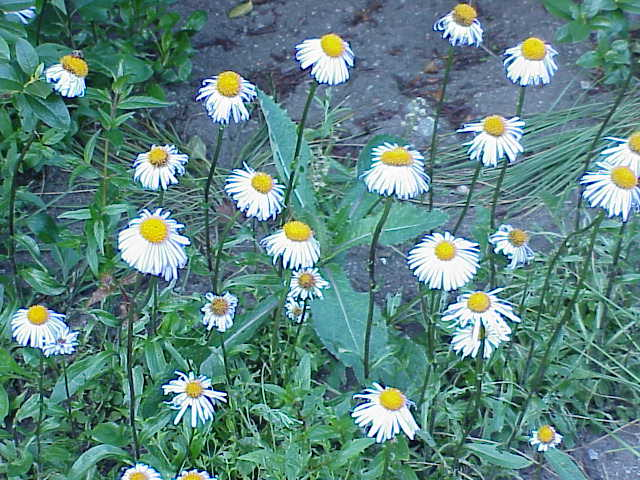 An Aster tongolensis from the Aster genus.